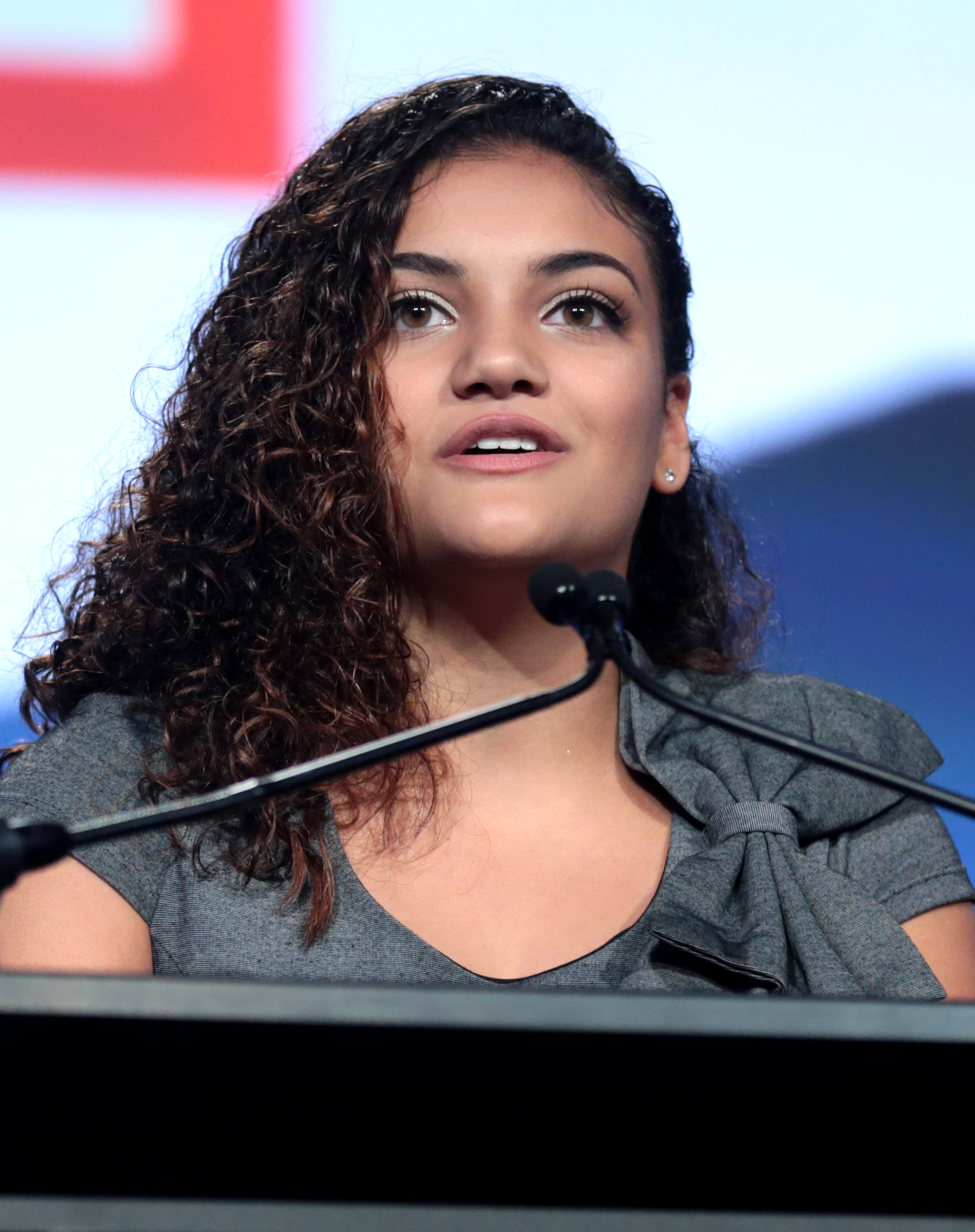 Laurie Hernandez speaking with attendees at the 2017 National Council of La Raza (NCLR) Annual Conference at the Phoenix Convention Center in Phoenix, Arizona.